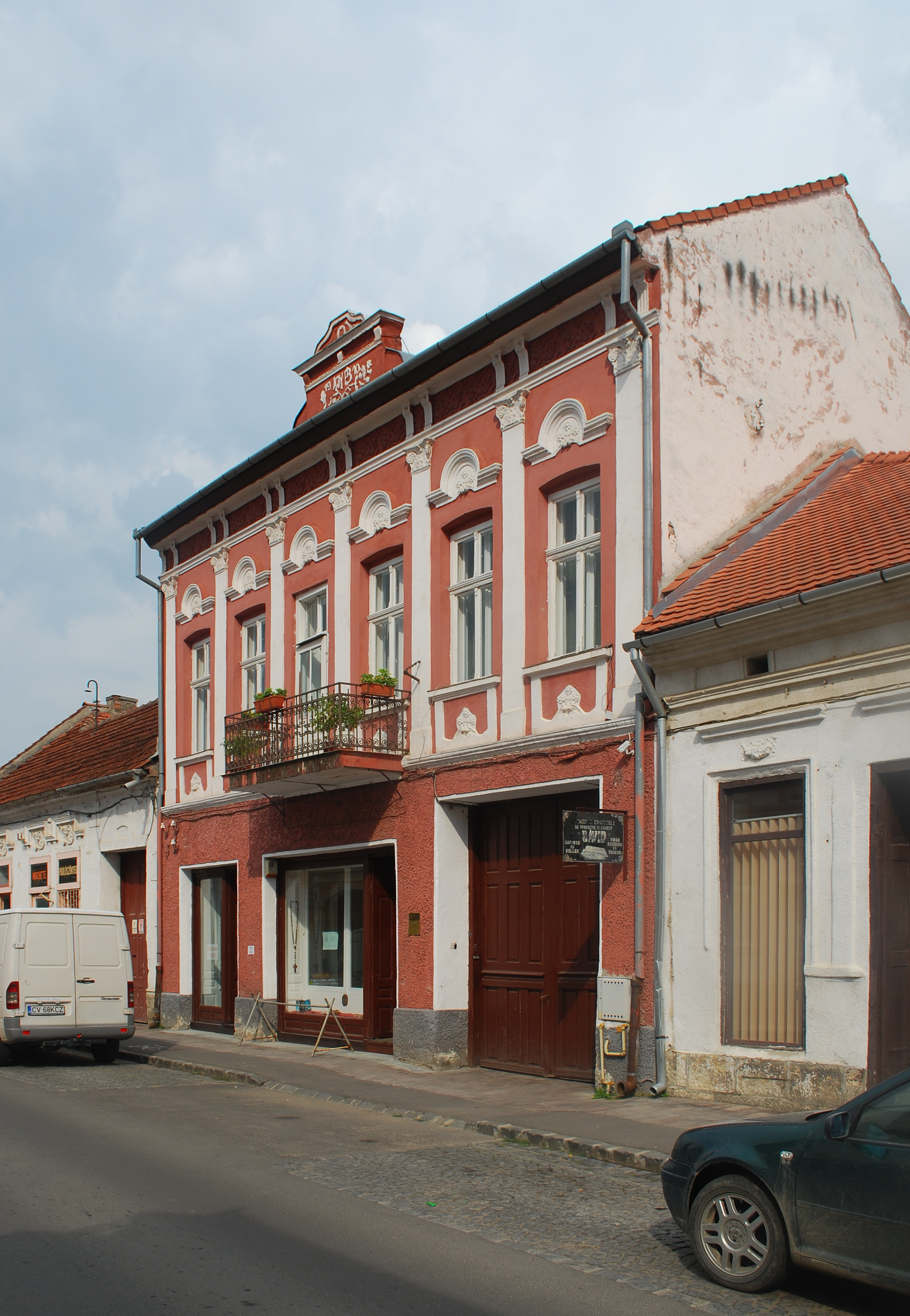 Nagy György house in Sfântu Gheorghe, Covasna County, Romania